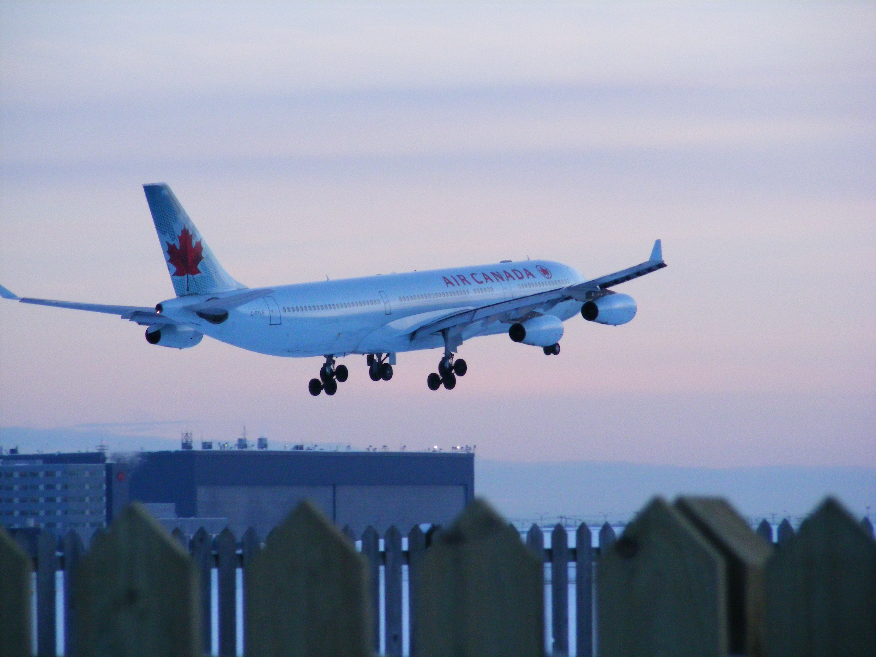 Air Canada's Airbus A340-300 landing at Montreal-Trudeau from London